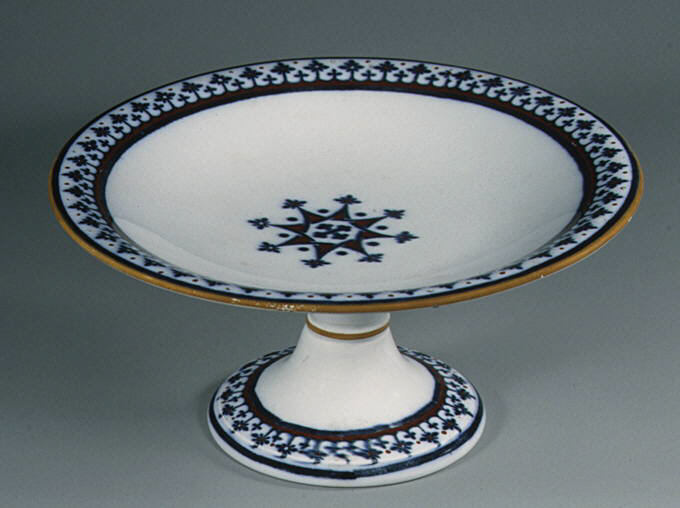 British, Stoke-on-Trent, Staffordshire; Tazza; Ceramics-Pottery